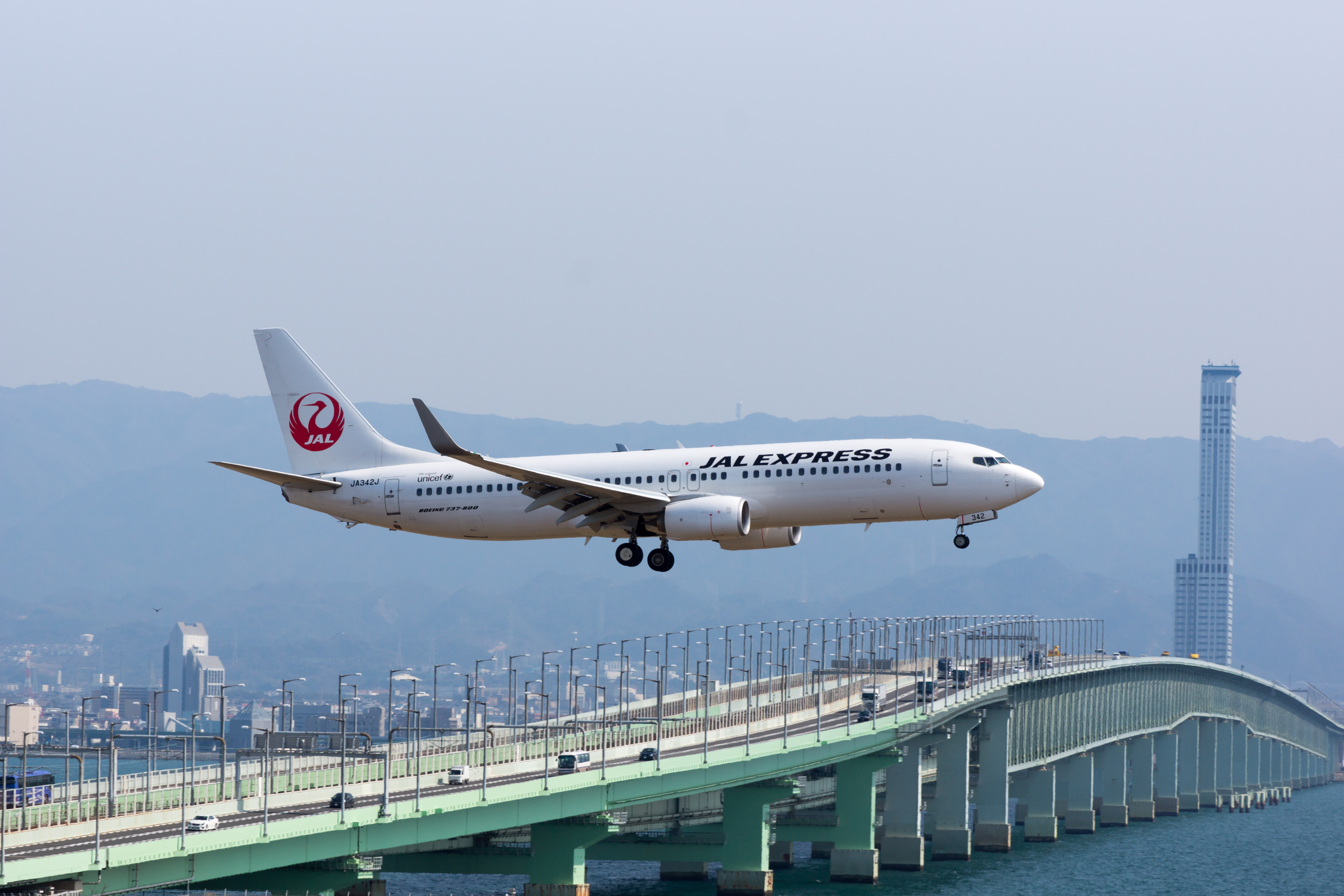 Japan Air Lines Boeing 737-846